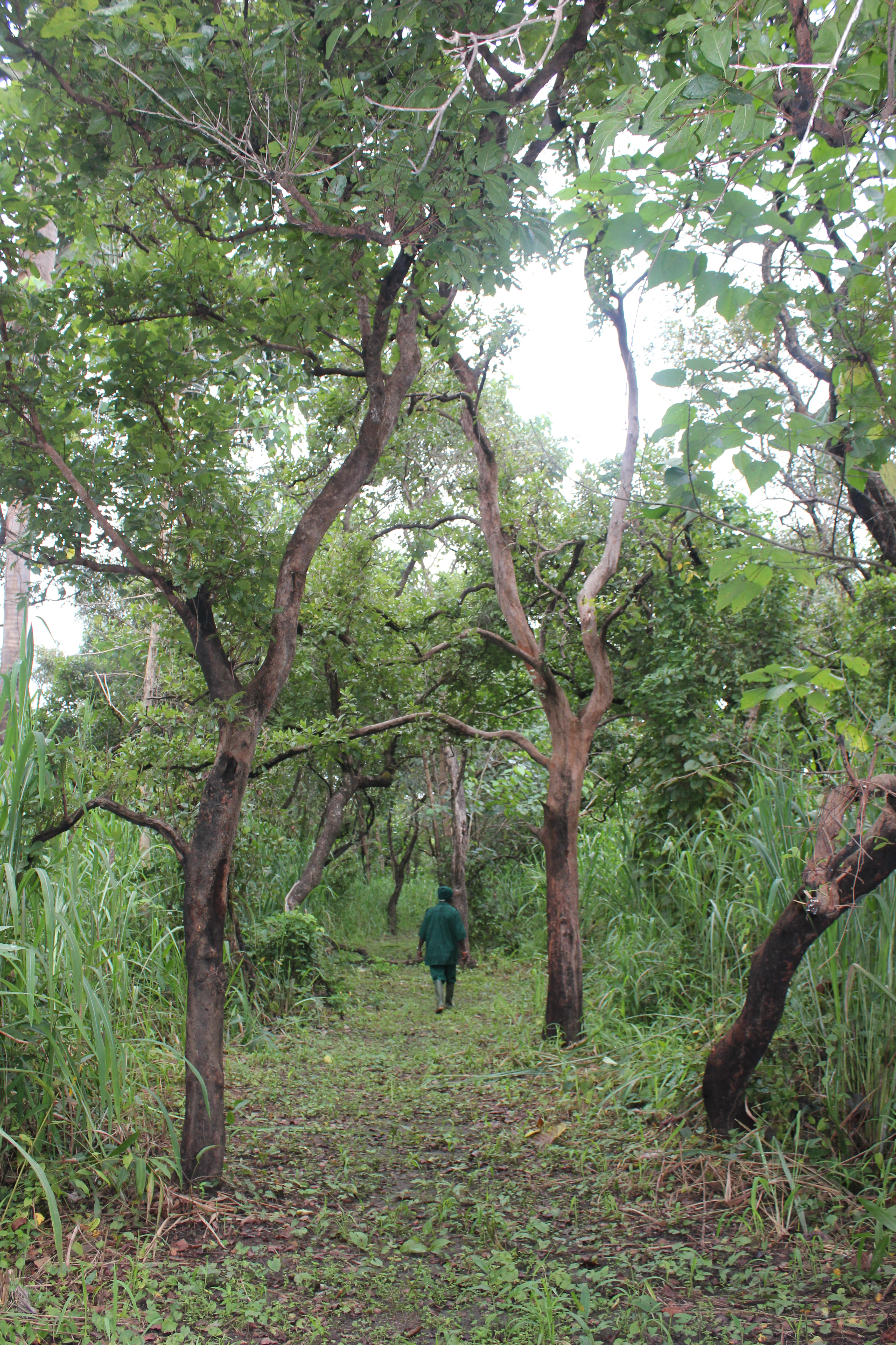 The Susu guide leads the way down the Karangia (Susu for 'hill of learning') Trail marked by gmelina trees.